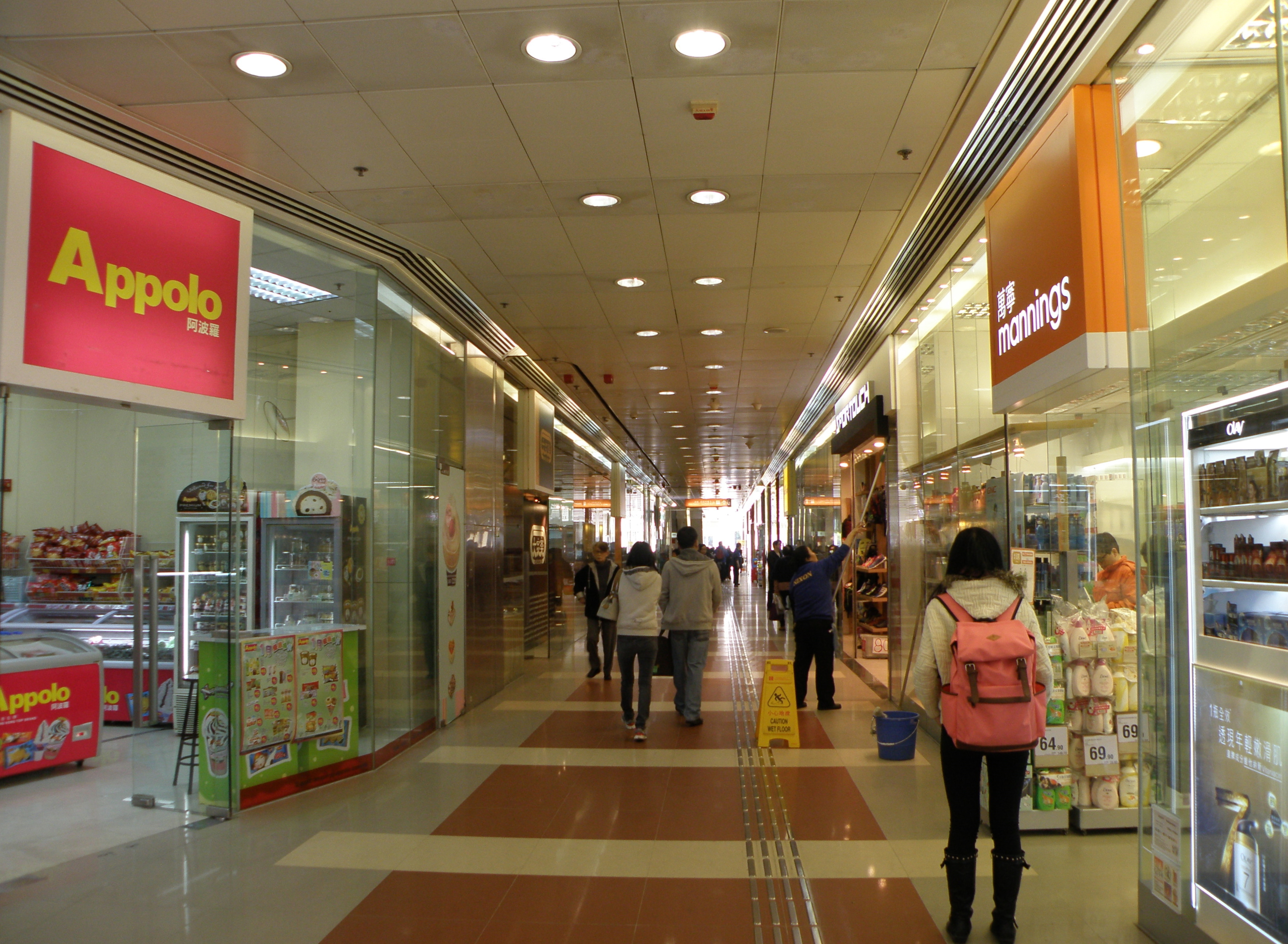 Po Tat Shopping Centre in Sau Mau Ping, Hong Kong.